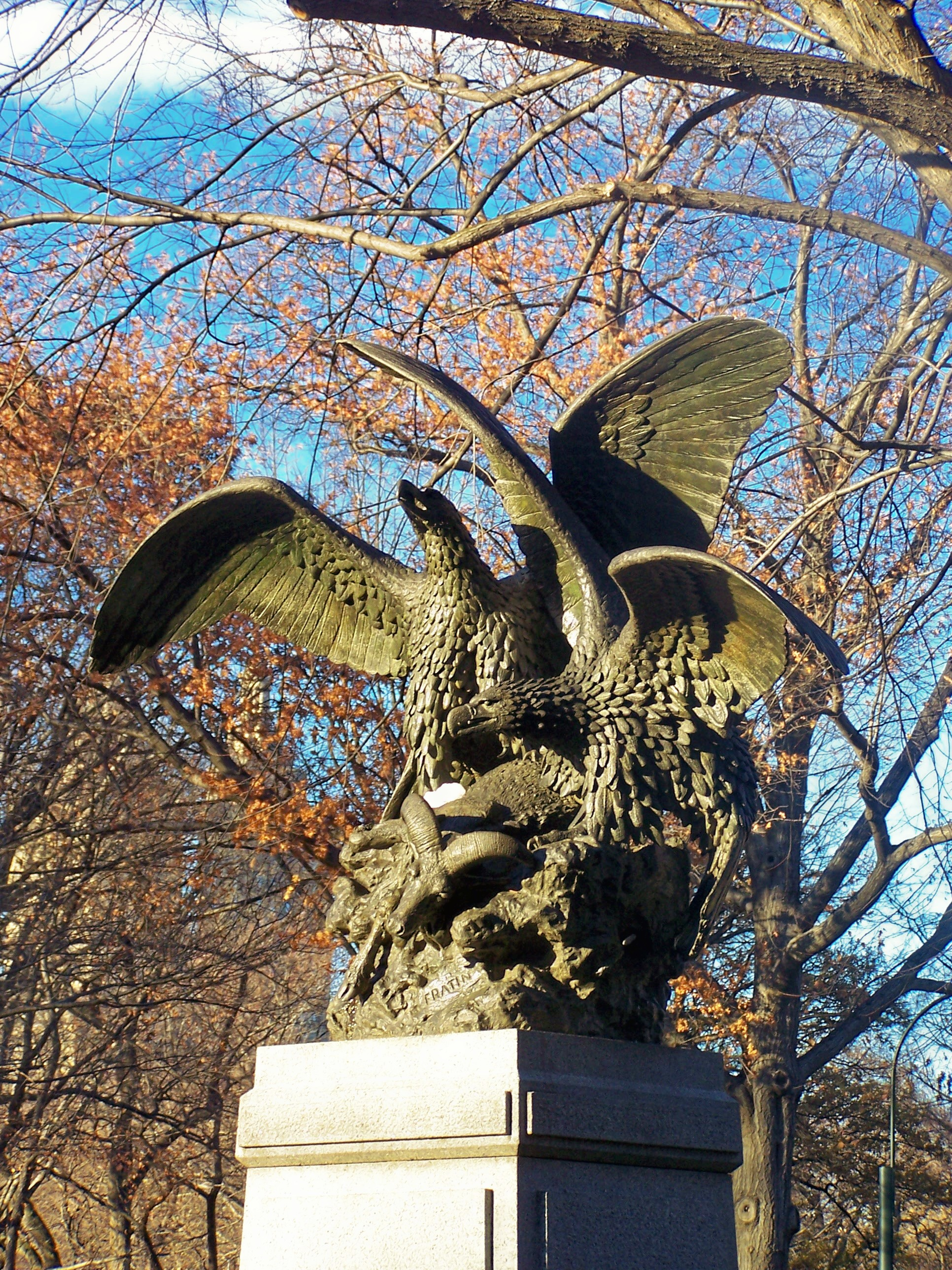 Eagles and Prey, designed and created by Christophe Fratin, is the oldest known sculpture in any New York City park. It is made of bronze, and was cast in Paris, France in 1850 and was placed in Central Park in 1863.